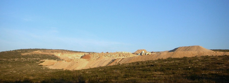 Stone quarries at Serra de Godall's southern end